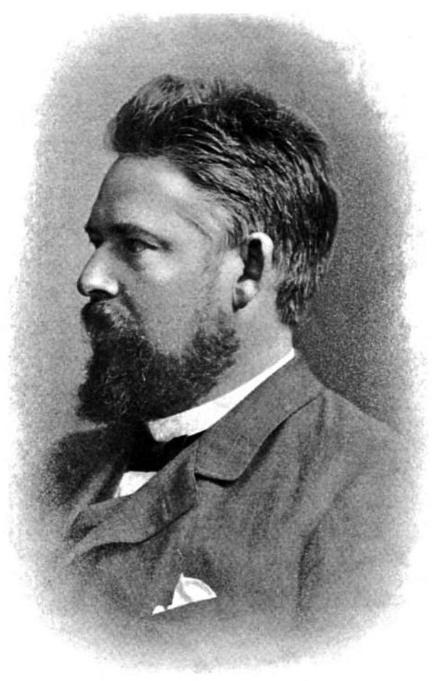 German astronomer Maximilian Franz Joseph Cornelius Wolf (1863–1932). (Photo by Hulton Archive/Getty Images)